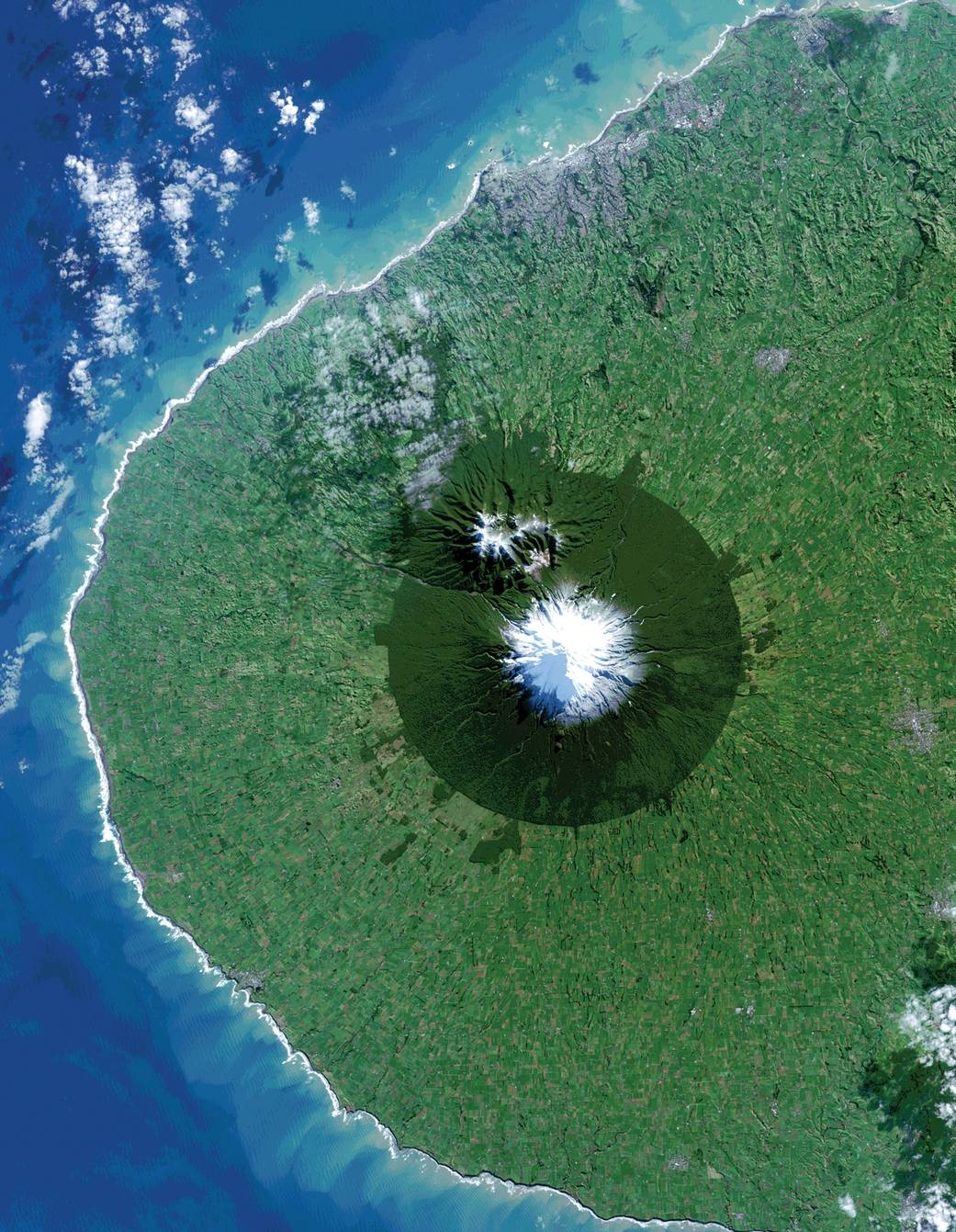 Image of Taranaki region from space.